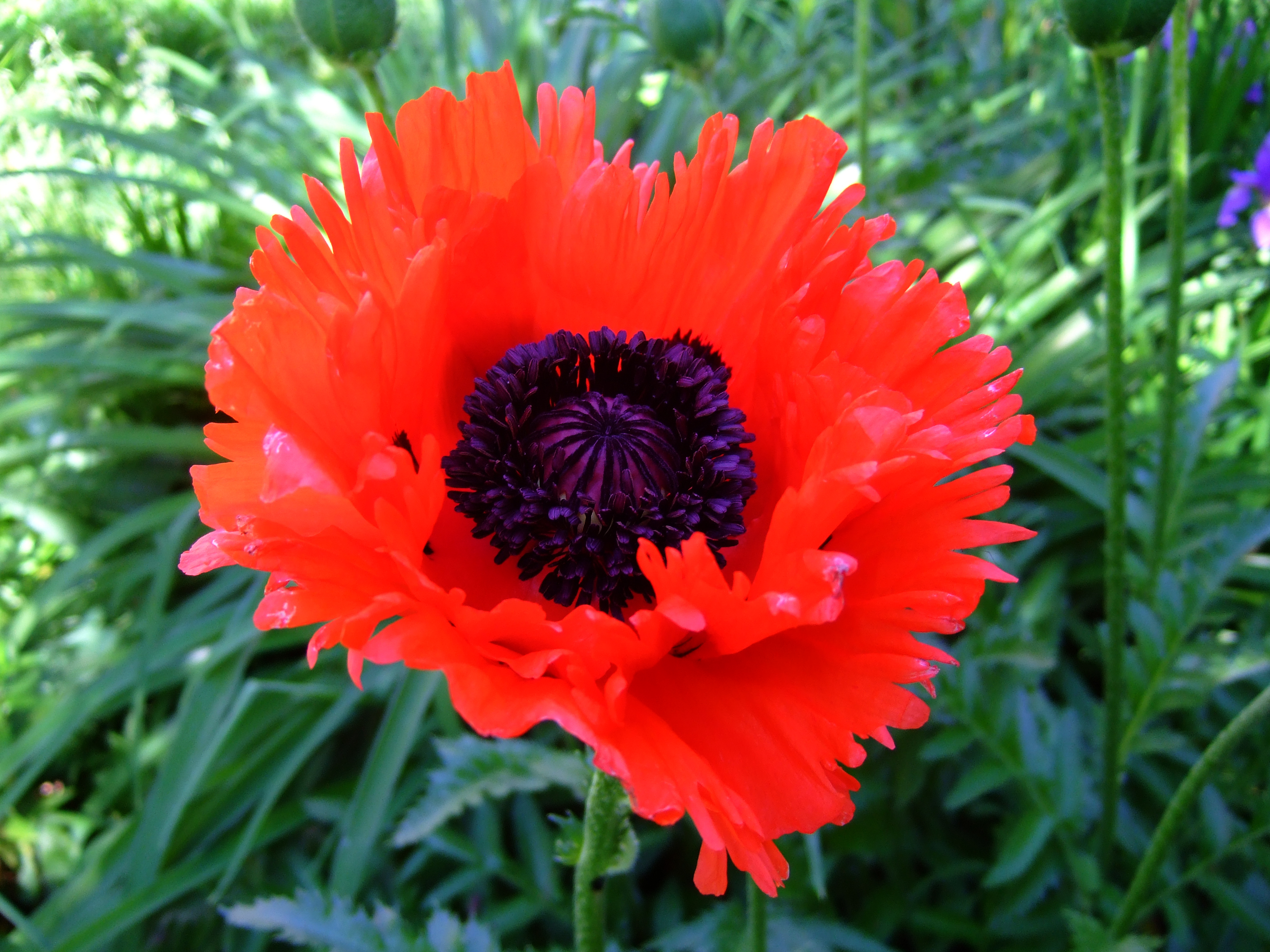 Papaver orientale 'Türkenlouis' flowering in Madison, Wisconsin.